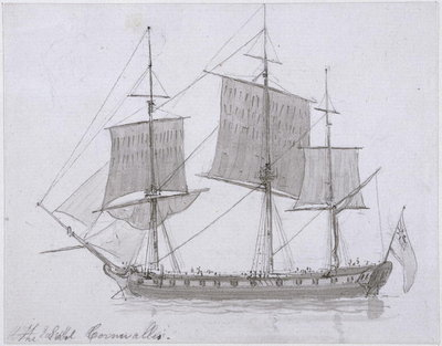 Pen $ ink and wash on paper